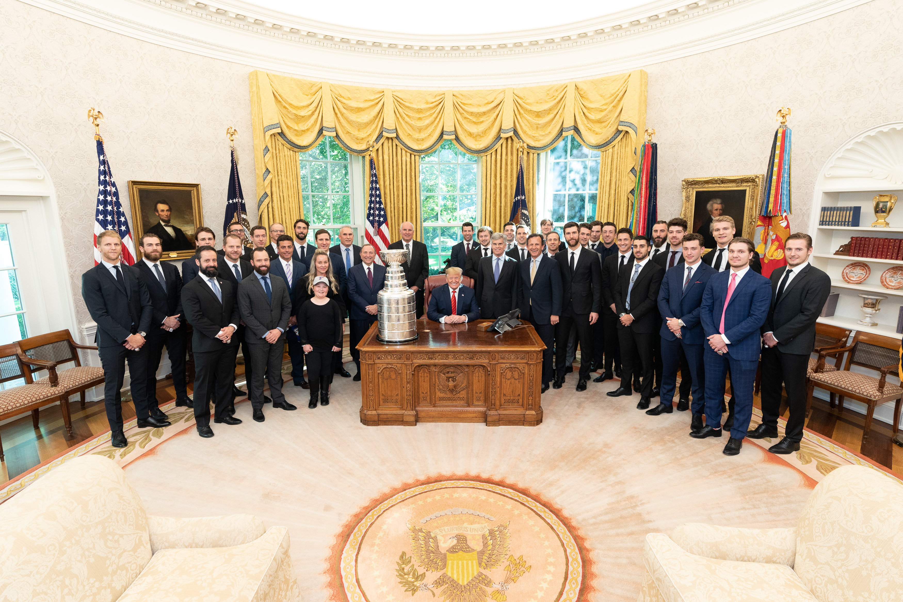 President Donald J. Trump greets and poses for photos with players, staff and super fan Laila Anderson and her mom Heather, of the 2019 Stanley Cup Championship Team the St. Louis Blues Tuesday, Oct. 15, 2019, in the Oval Office of the White House. (Official White House Photo by Shealah Craighead)